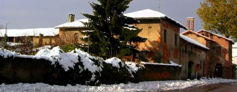 Cascina Linterno, Milano, Italy. Winter 2005.